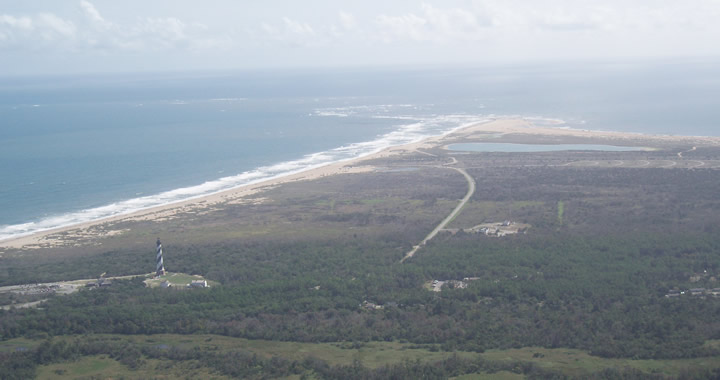 Aerial view of the barrier island Cape Hatteras. The lighthouse is in the foreground with Cape Point and Diamond Shoals extending beyond.